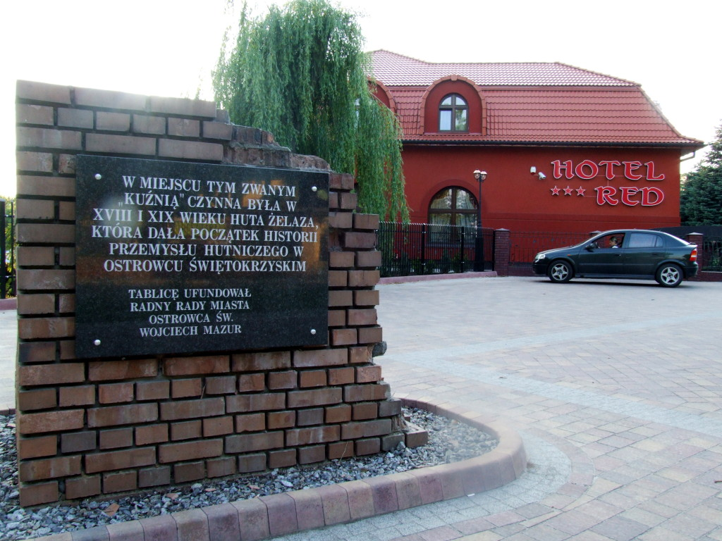 Commemorative plaque of forge in Kuznia (forge) district in Ostrowiec Swietokrzyski